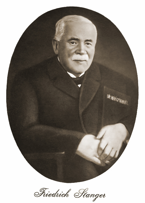 Friedrich Stanger, founder of the RettungsArche (rescue ark) in Möttlingen, with Bible